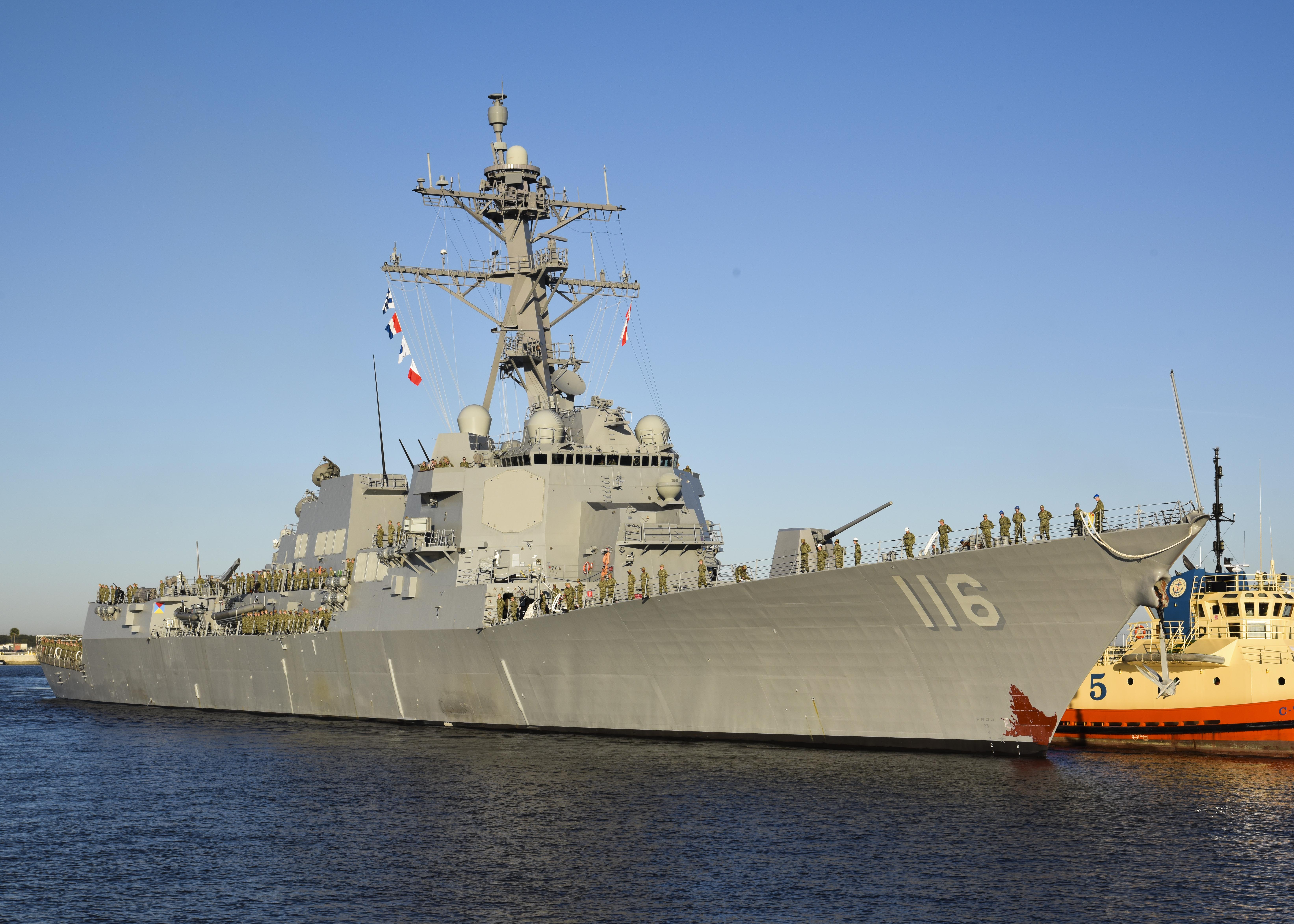 181030-N-ED185-051MAYPORT, Fla. (Oct. 30, 2018) Sailors man the rails as the future Arleigh Burke-class guided missile destroyer USS Thomas Hudner (DDG 116) arrives at Naval Station Mayport. Thomas Hudner arrived at Naval Station Mayport for a port visit before its official commissioning ceremony in Boston early December. (U.S. Navy photo by Mass Communication Specialist 1st Class Brian G. Reynolds/Released)